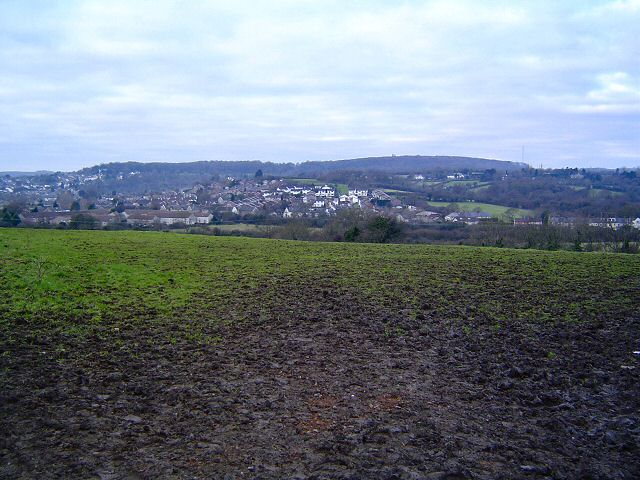 A view of Dinas Powis. Looking westwards over Dinas Powys from beside the Sully road.